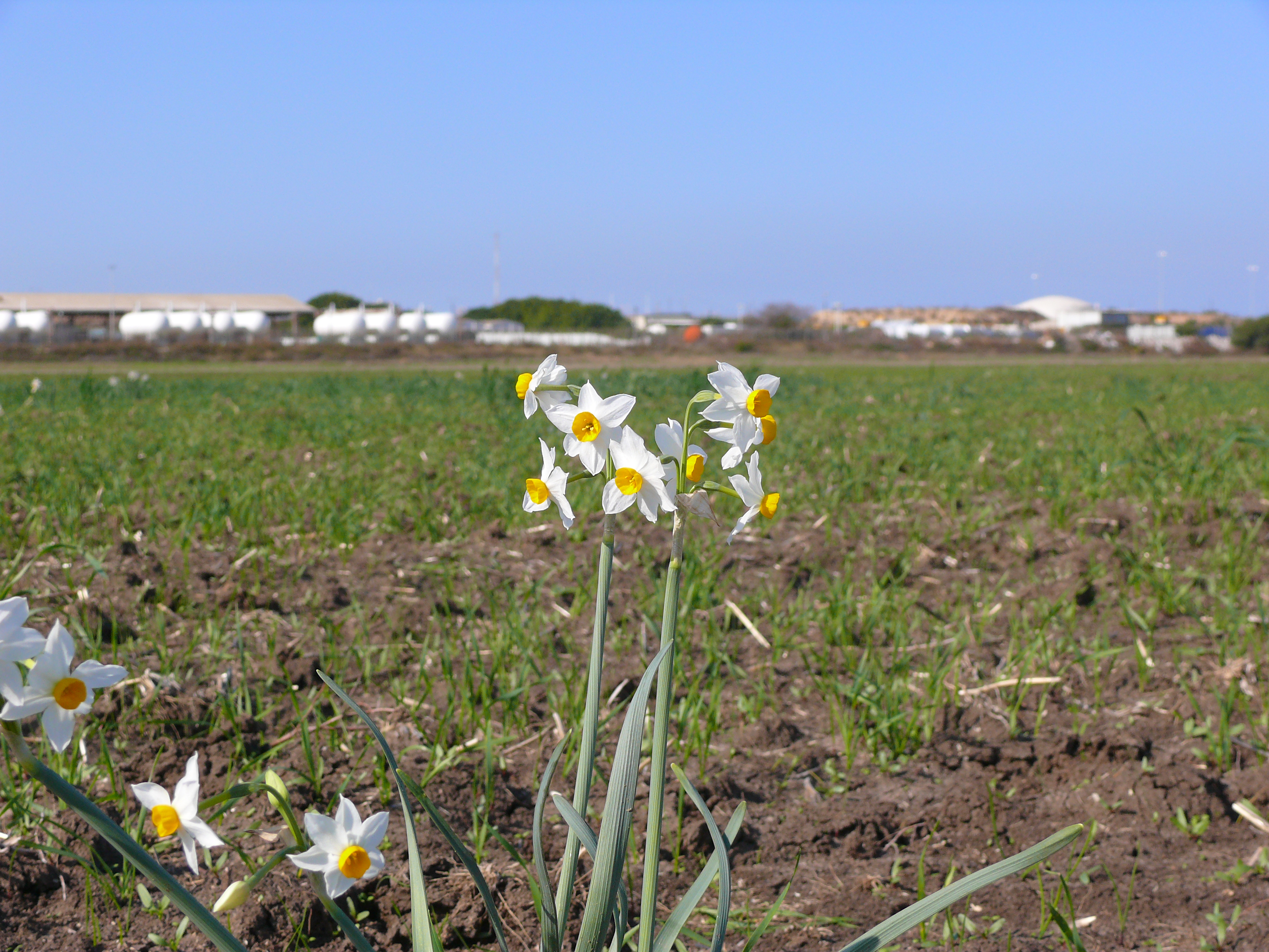 Narcissus tazetta in Israel